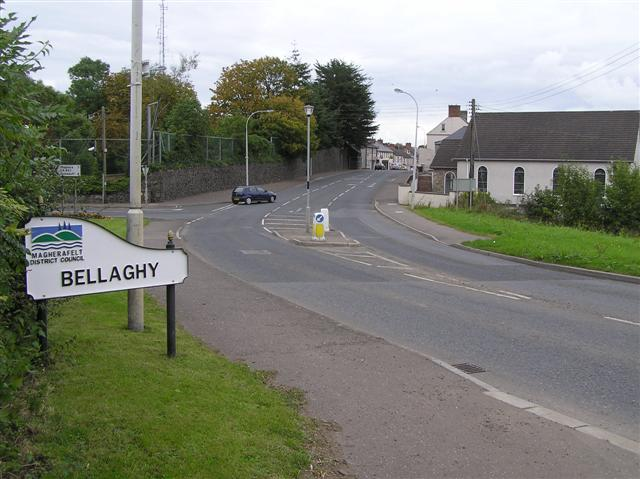 Bellaghy Village Approaching the village